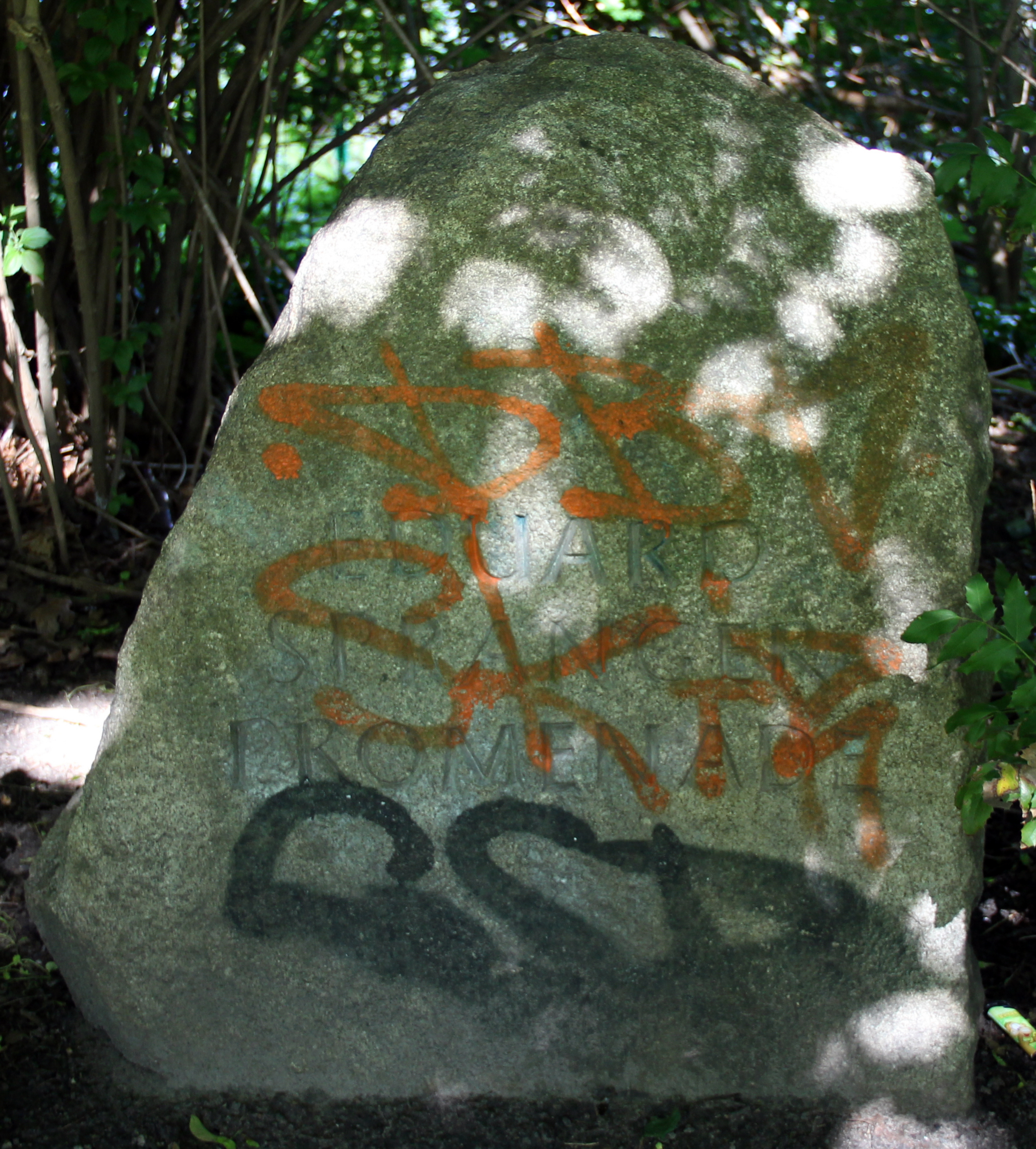 Memorial stone, Eduard Spranger, Eduard-Spranger-Promenade, Berlin-Lichterfelde, Germany